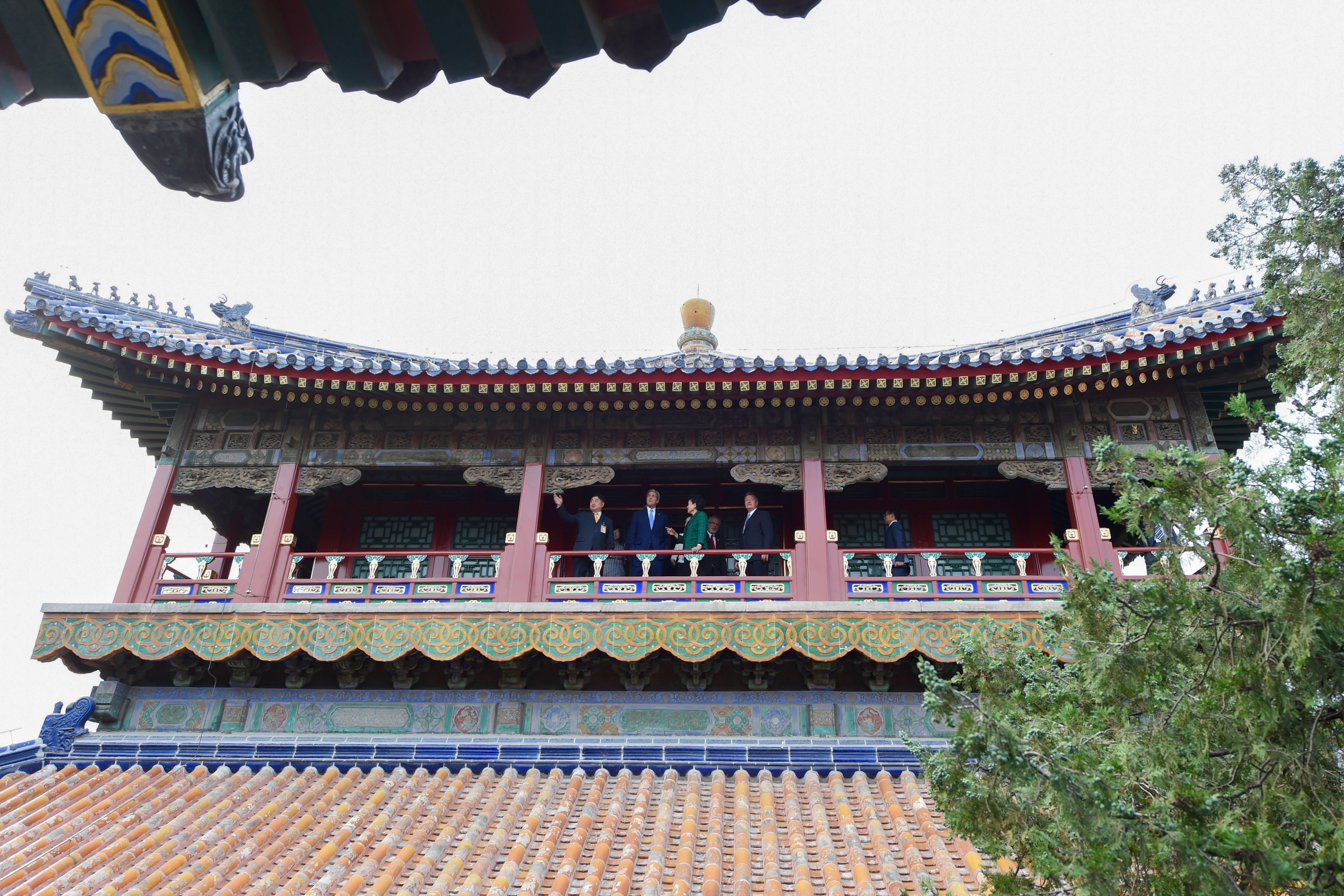 [State Department photo/ Public Domain]